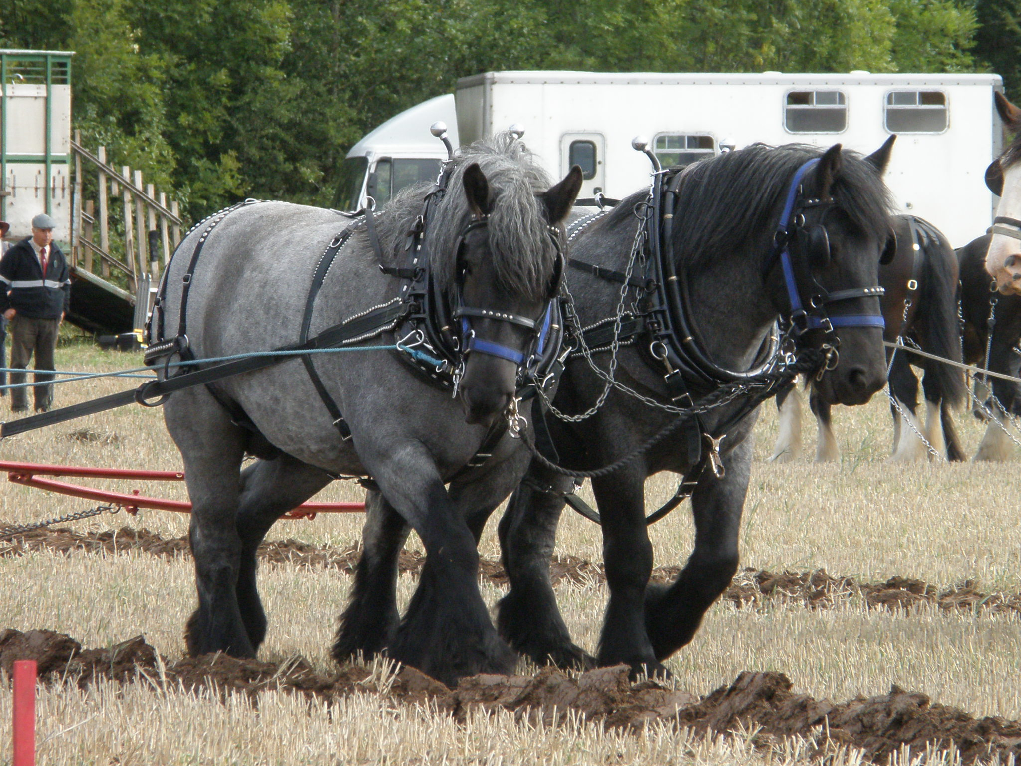 The Forest of Arden Agricultural Society 62nd Hedging and Ploughing Match. St Giles Farm, Spernal, Studley, Warwickshire.